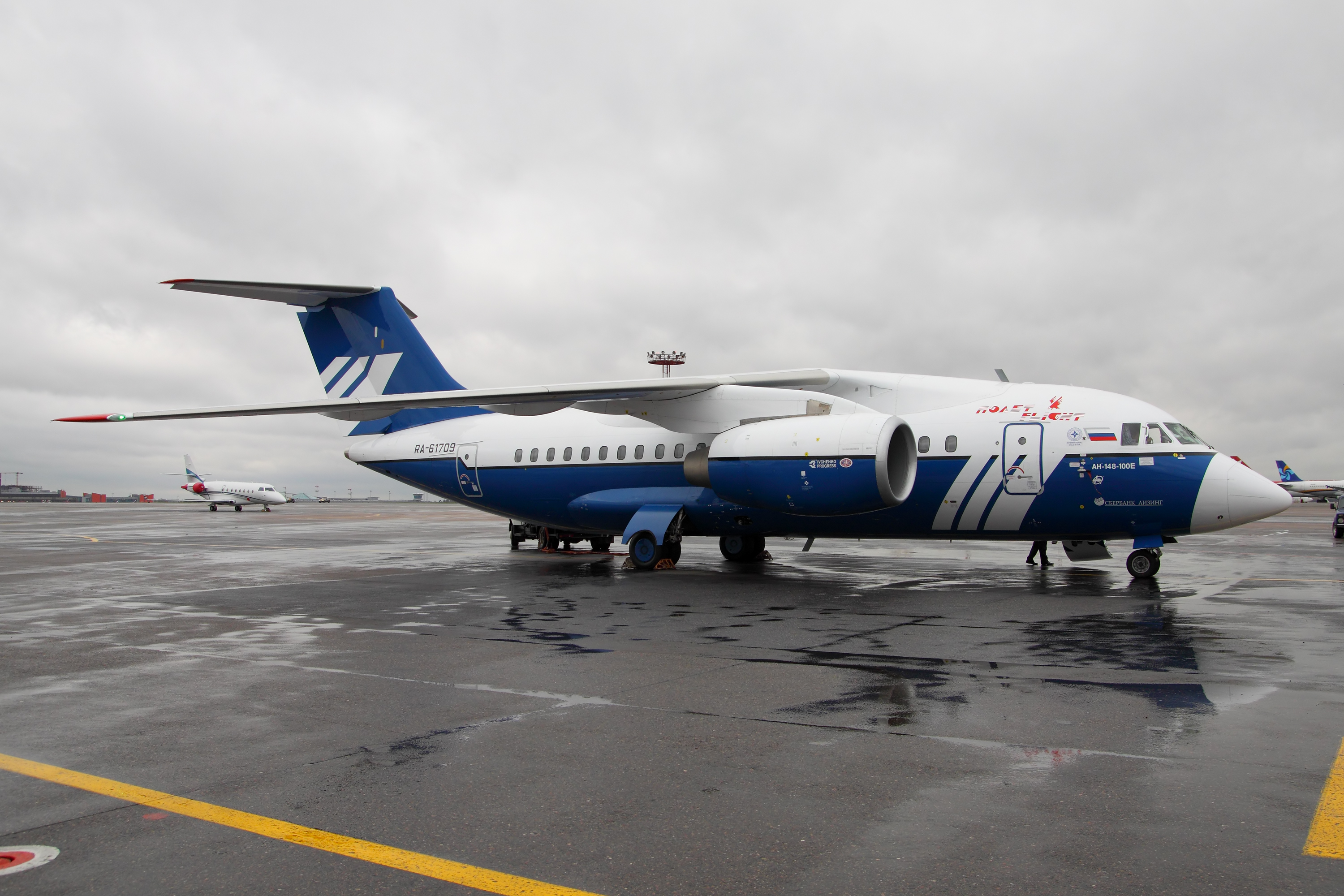 Polet Airlines Antonov An-148-100E reg. RA-61709 parked at Moscow Sheremetyevo airport during a stopover on its way from Voronezh to St. Petersburg